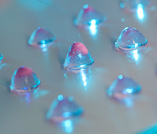 Medikamentuak barruan duen hidrogela